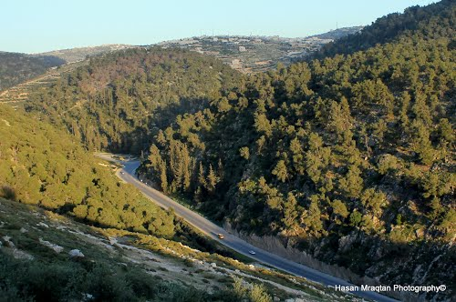 Wadi alquf